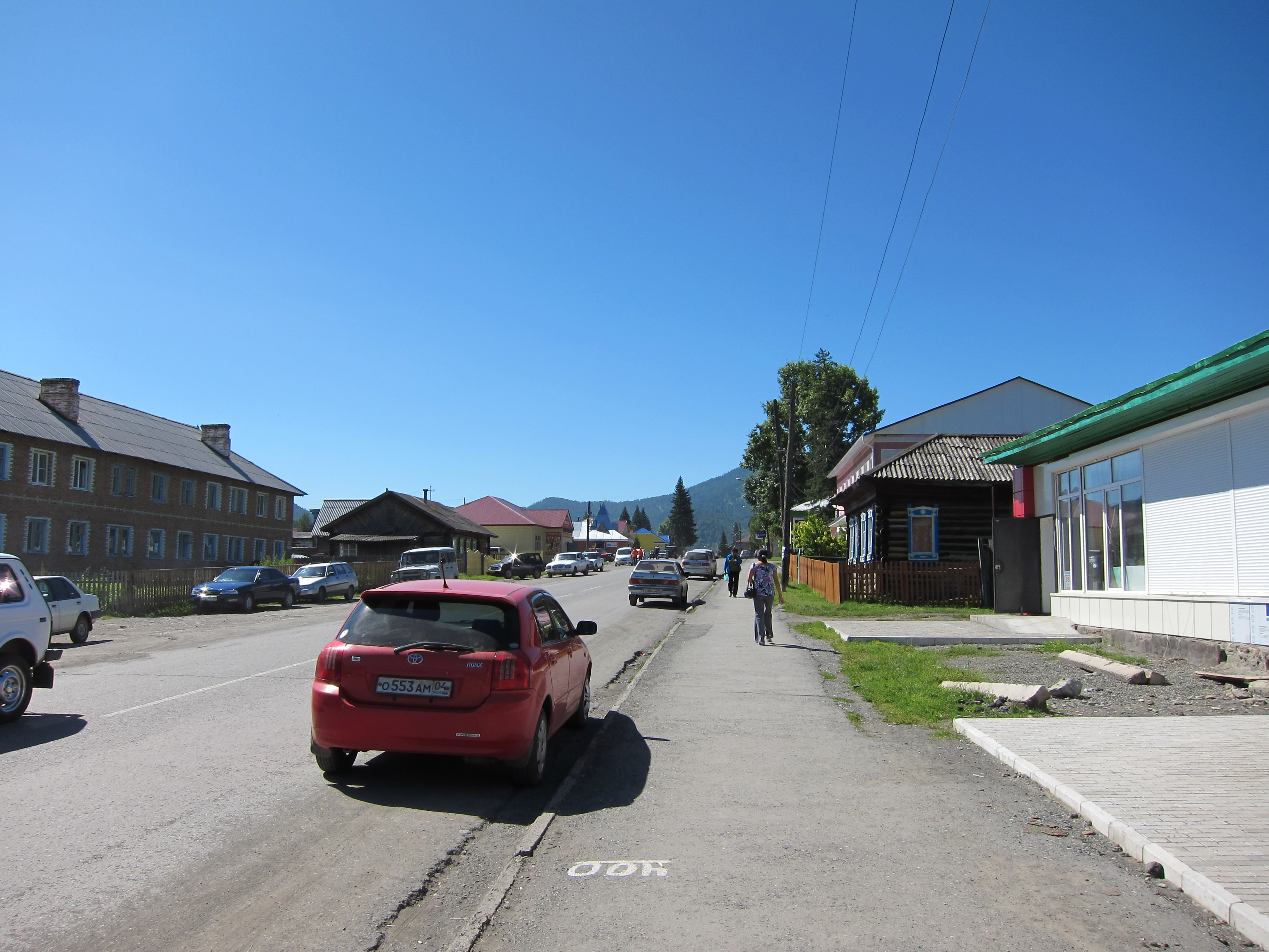 Shebalino settlement in the Altai Republic